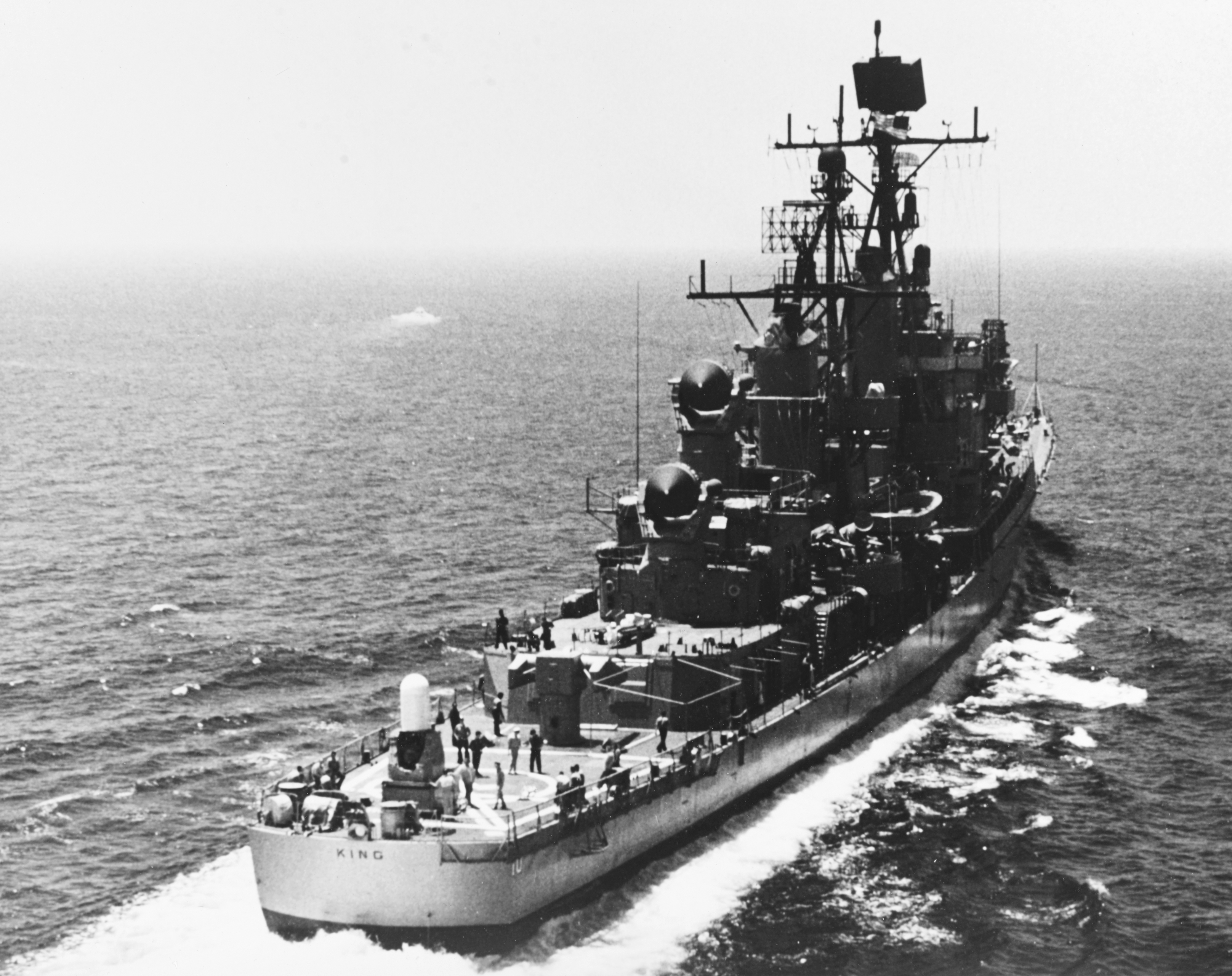 The U.S. Navy guided missile destroyer USS King (DLG-10) underway, with the prototype Phalanx close in weapon system on her fantail for tests.